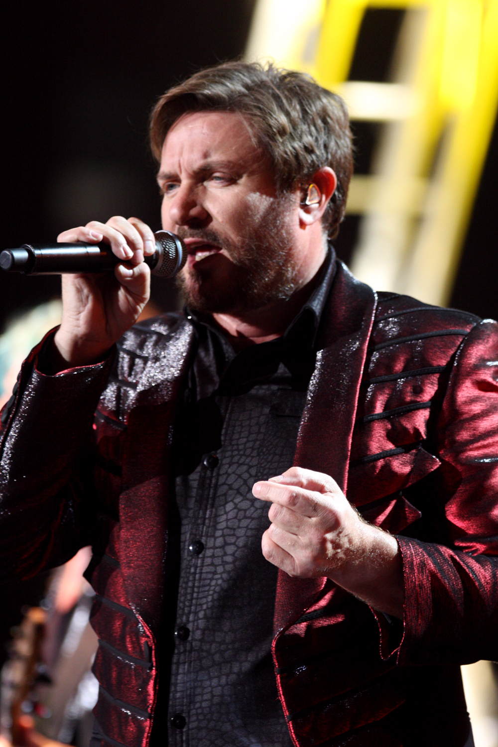 Duran Duran Rock Sydney Entertainment Centre, Australia